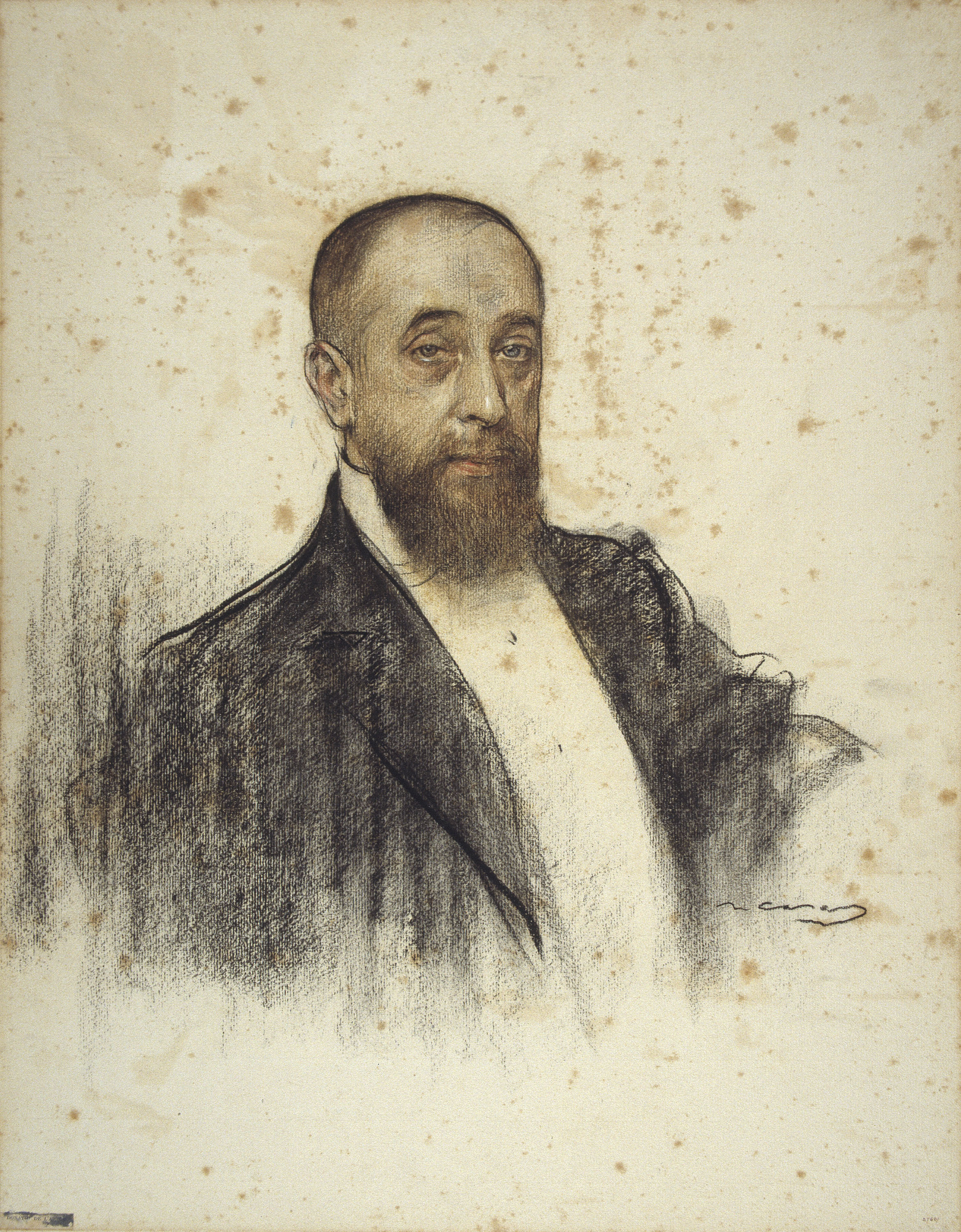 Portrait by Ramon Casas conserved at MNAC in Barcelona. Imagen 085